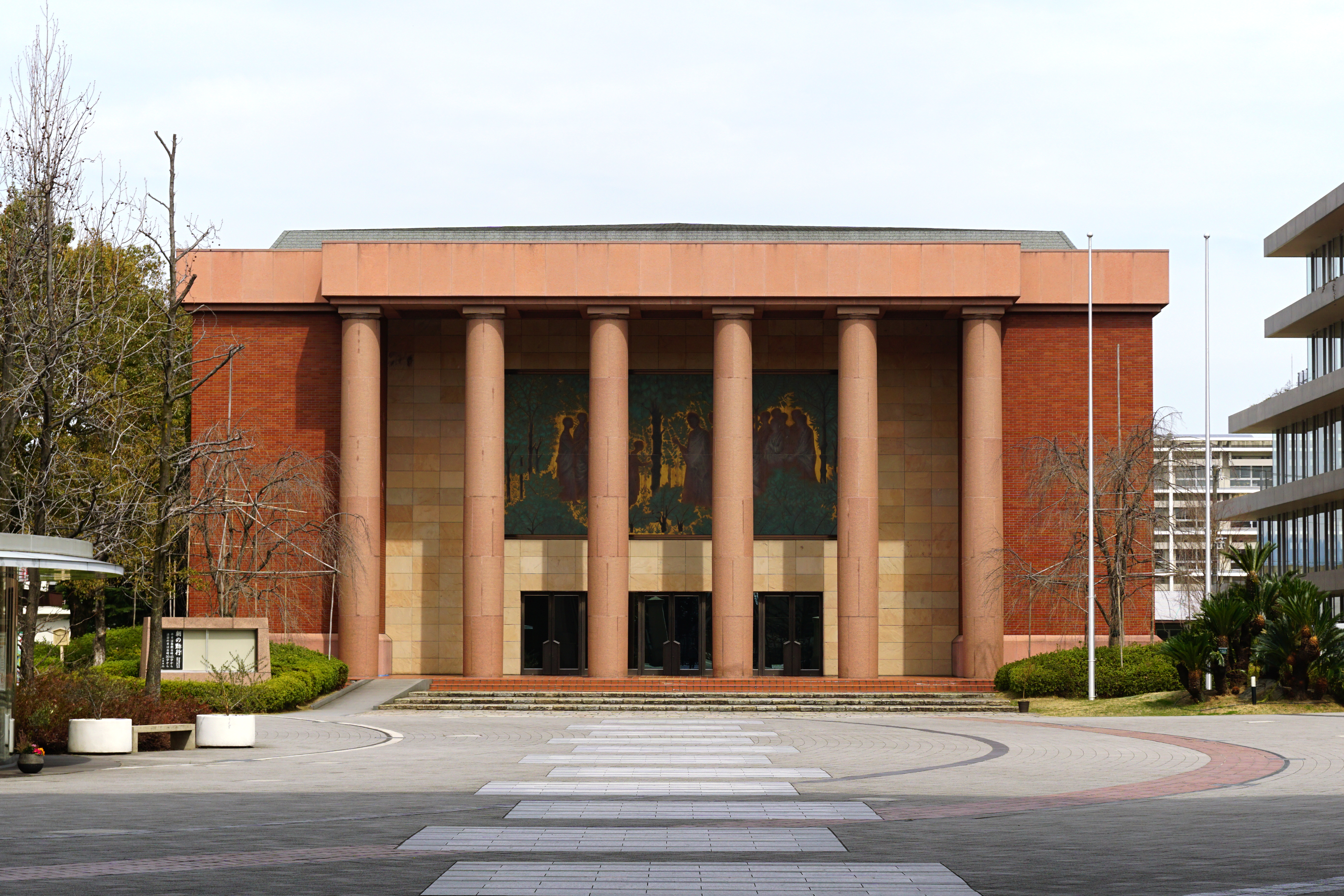 Ryukoku University Fukakusa Campus in Kyoto, Kyoto prefecture, Japan